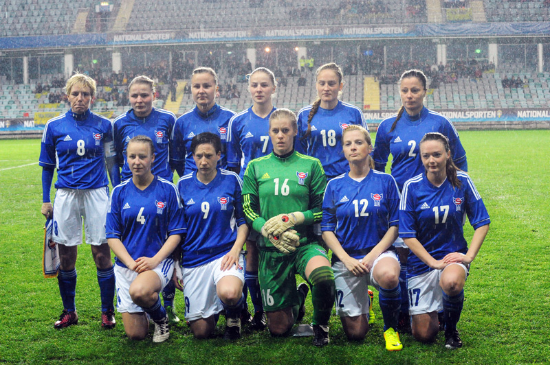 Faroe Islands women's football team before a 5-0 defeat to Sweden at Gamla Ullevi, 31 October 2013. Back row (L-R): Malena Josephsen, Heidi Sevdal, Frídrún Danielsen, Ansy Sevdal, Idunn Magnussen, Oddrún Danielsen. Front row (L-R): Anna Brimnes, Rannvá Andreasen, Randi Wardum, Liljan Petersen, Sigrid Jacobsen